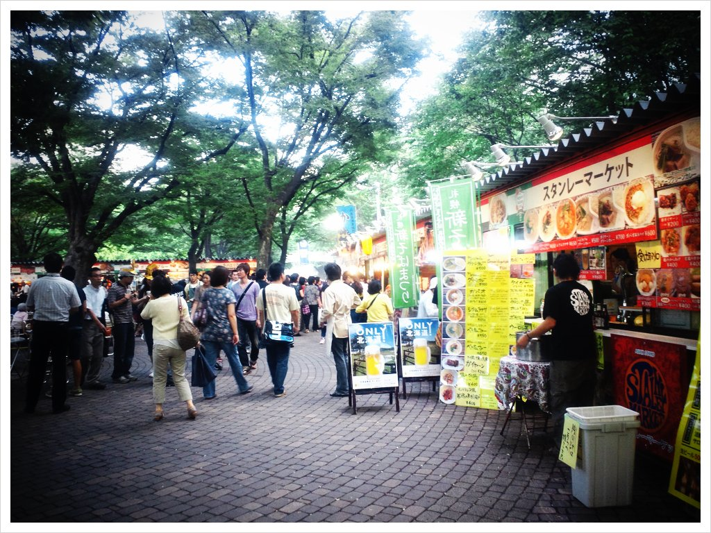 Taken with picplz in Sapporo City Chuo Ward, Japan .